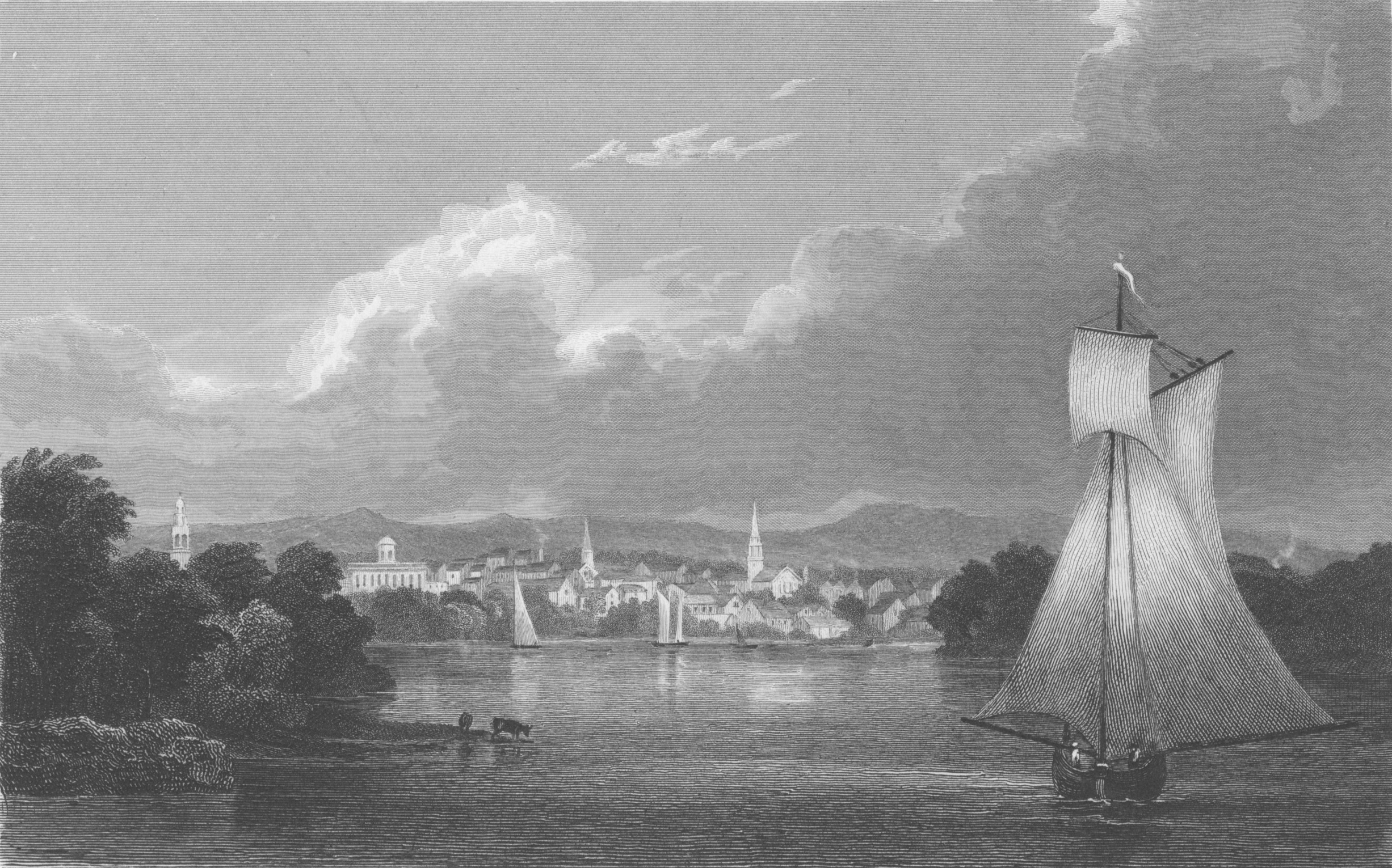 Volume numbers given here refer to the original volume numbers of the publication, not of Lossing's publication. Printmakers include Henry Bryan Hall, S.V. Hunt, and Max Rosenthal. Title from title page of extra-illustrated volume. EM4911